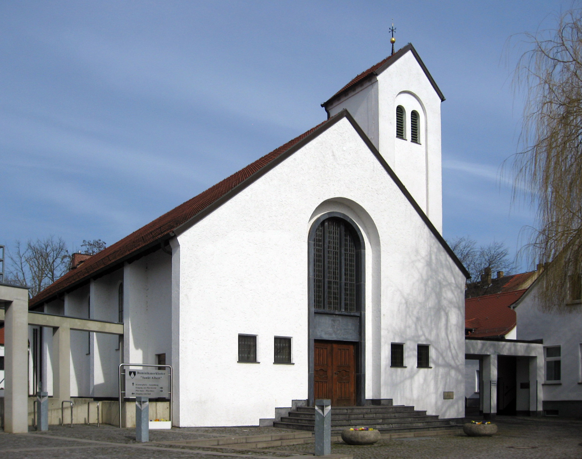 Parish Church and Convent of St. Albert in Leipzig-Wahren, Georg-Schumann-Strasse 336